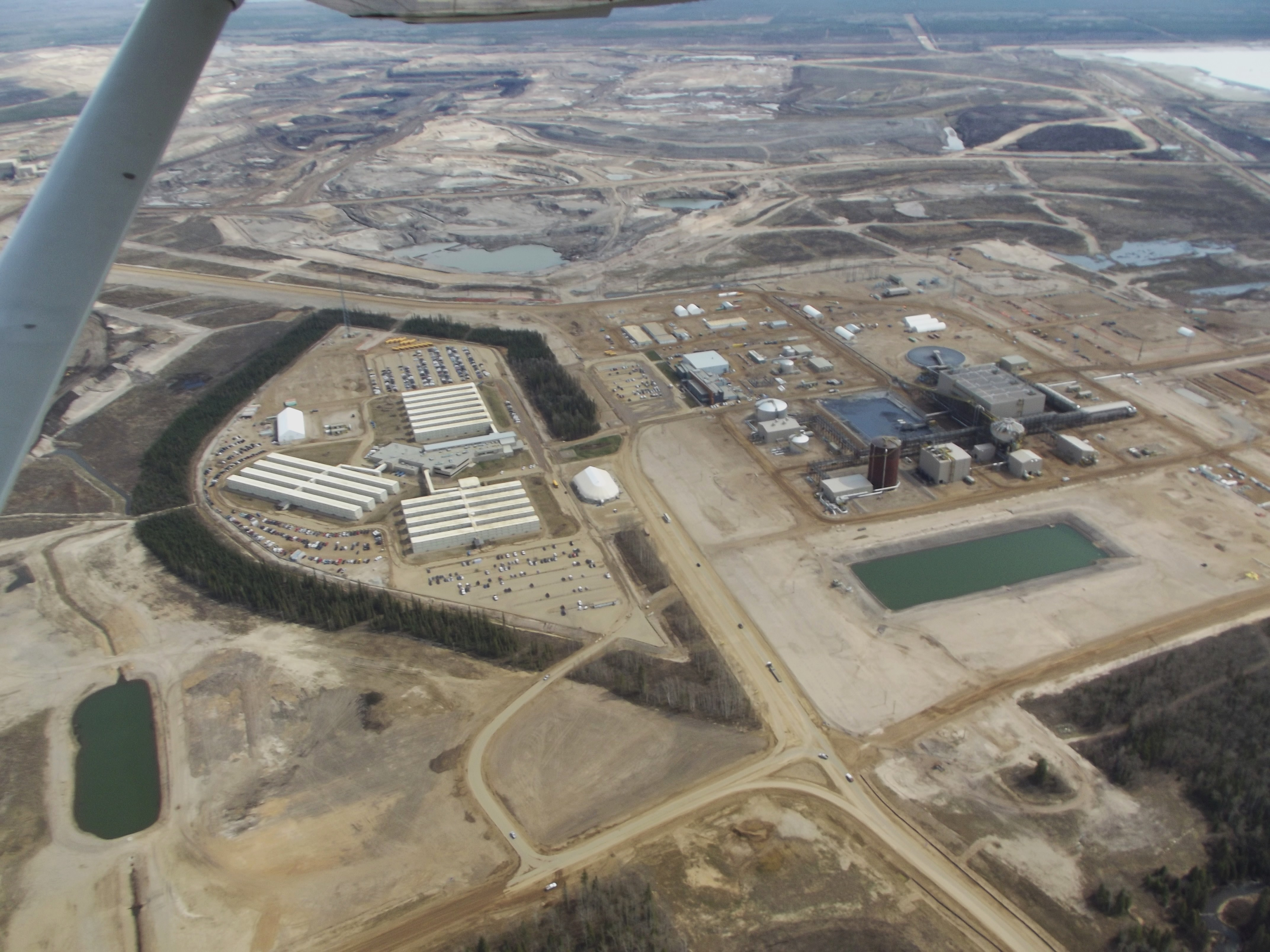 SHELL Albians sands north east of Fort Mcmurray Alberta Candad